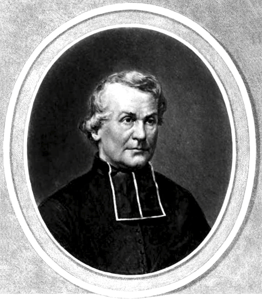 Joseph Gratry (1805-1872), French Priest & Philosopher